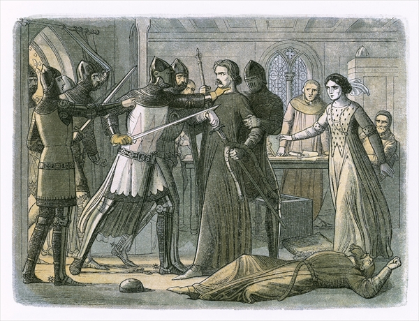 Edward III seizes Roger Mortimer, 1st Earl of March, the lover of his mother, Isabella of France. This engraving was published in: Doyle, James William Edmund (1864) "Edward III" in A Chronicle of England: B.C. 55 – A.D. 1485, London: Longman, Green, Longman, Roberts & Green, pp. p. 293 Retrieved on 12 November 2010.